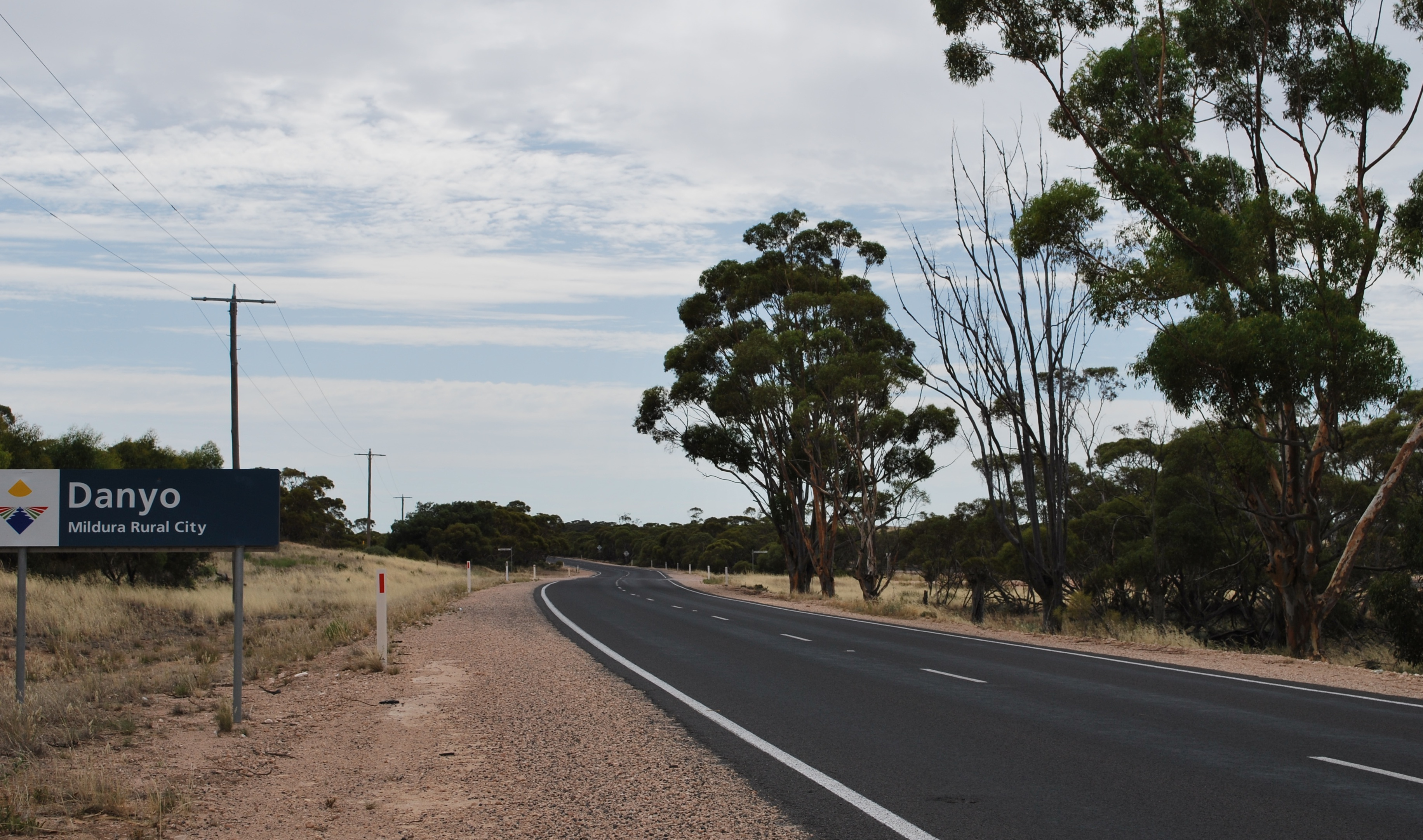 Town entry sign at Danyo, Victoria